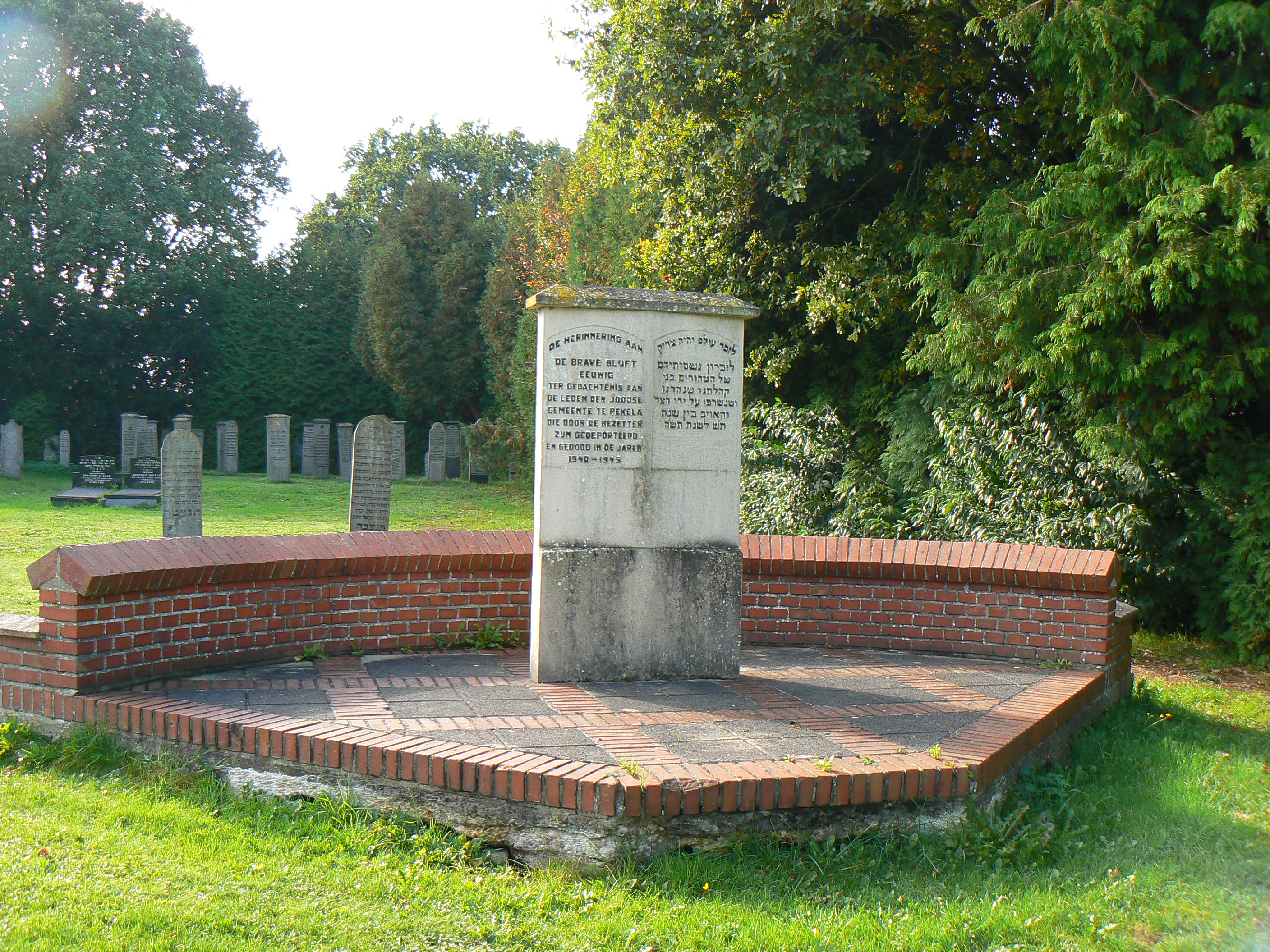 Memorial Joods monument Oude Pekela (1950), Draijerswijk in Oude Pekela/The Netherlands